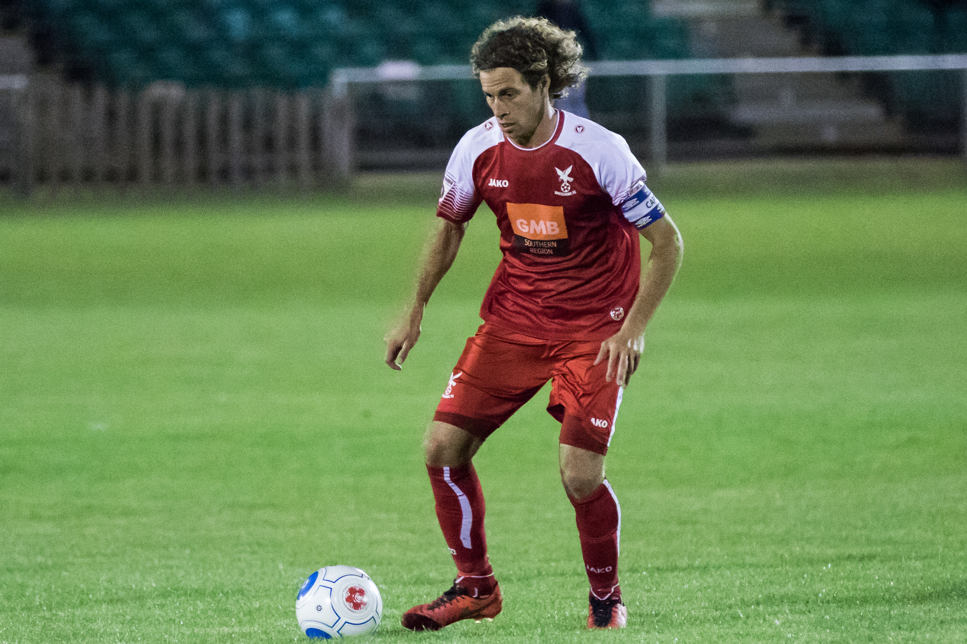 Sergio Torres on the ball for Whitehawk v Dartford 2016